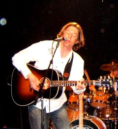 Photo of Nathan Stickman taken by me on February 10th, 2007 at the Emergenza Music Festival at 12th and Porter in Nashville Tennessee.